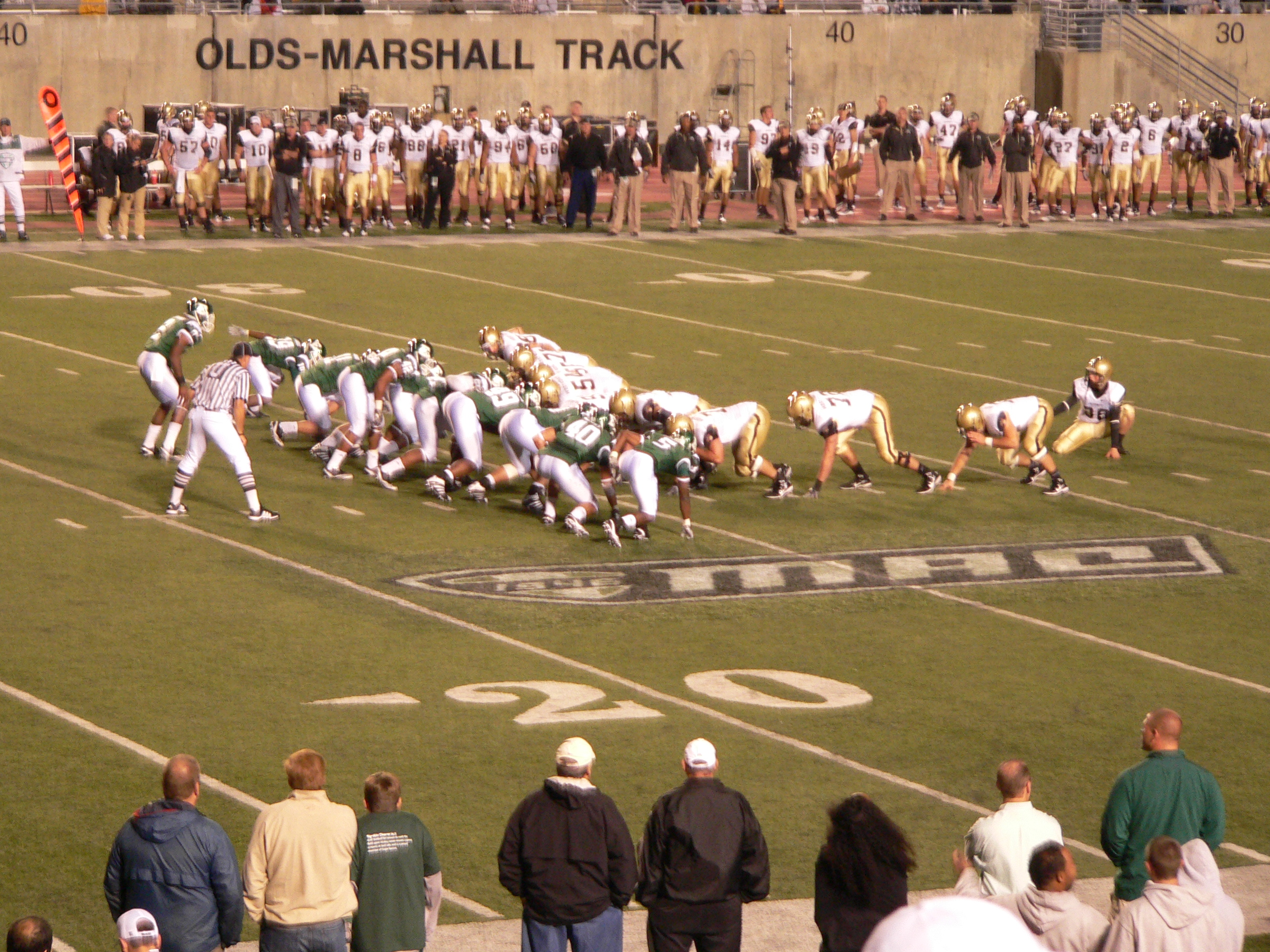 Army lines up for a field goal attempt in the third quarter at Eastern Michigan University.